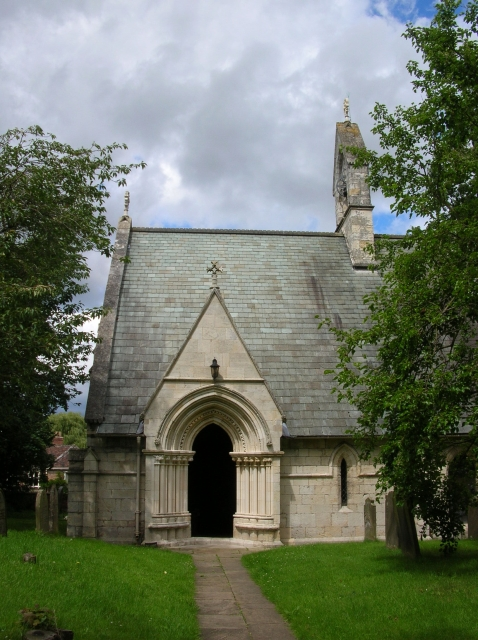 St. Giles' Church A sign here says built 1247.